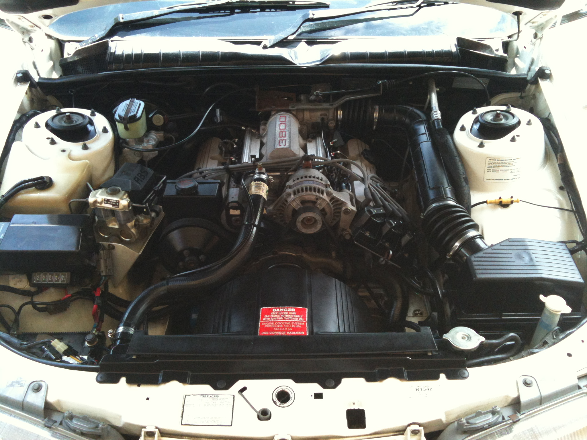 The engine bay of a 1994 Holden VR Commodore.